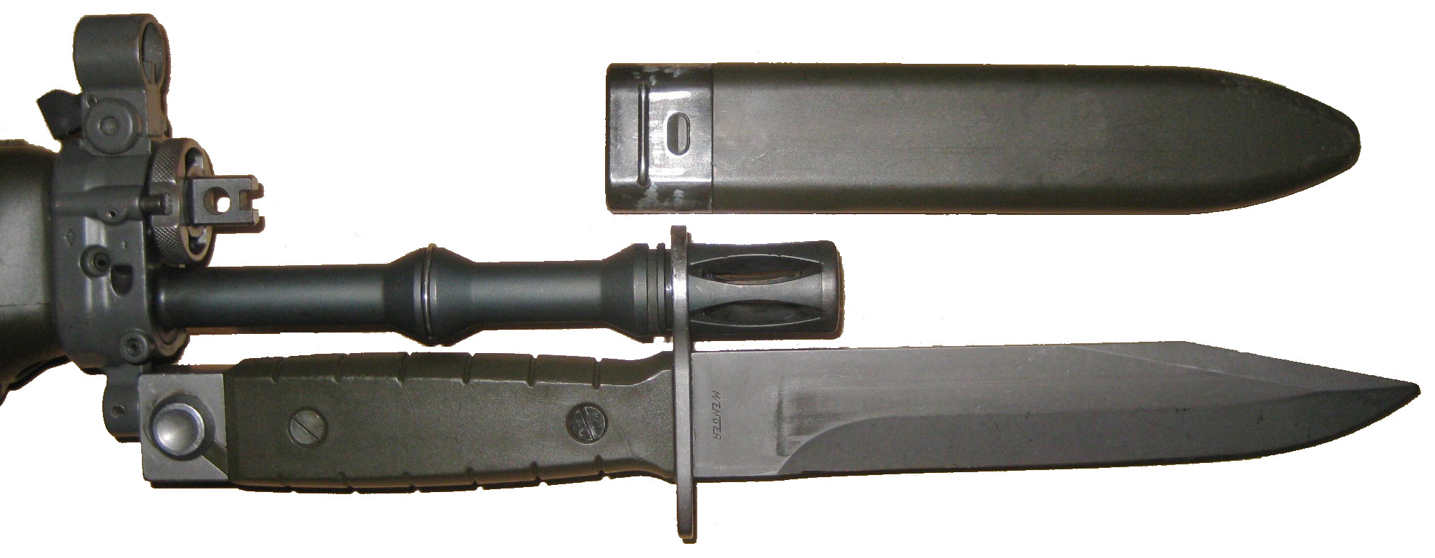 A Swiss Stgw 90 bayonet made before 2005 by Wenger. The bayonet has an overall length of 310 mm and a muzzle ring diameter of 22 mm. The 177 mm long blade is single-edged and it has no fuller. The bayonets are manufactured exclusively for the Swiss Army by Victorinox and in the past by Wenger until Victorinox acquired Wenger in 2005. With a proper lug adaptor, the rifle will also accept a NATO-pattern KCB-77 (made originally by Carl Eickhorn of Solingen, West Germany) or the American M9.